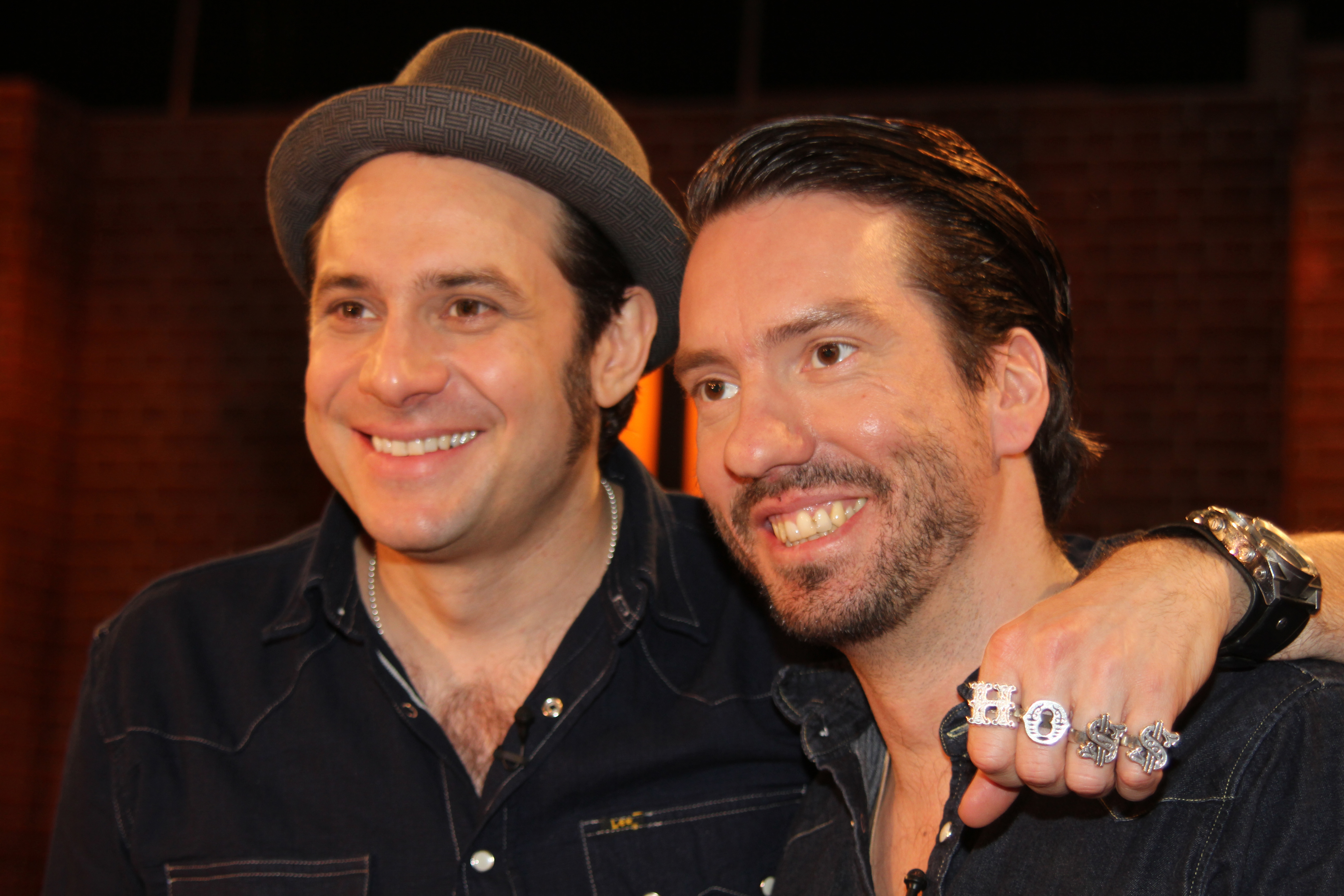 Sascha Vollmer (left) and Alec Völkel (right) from The BossHoss